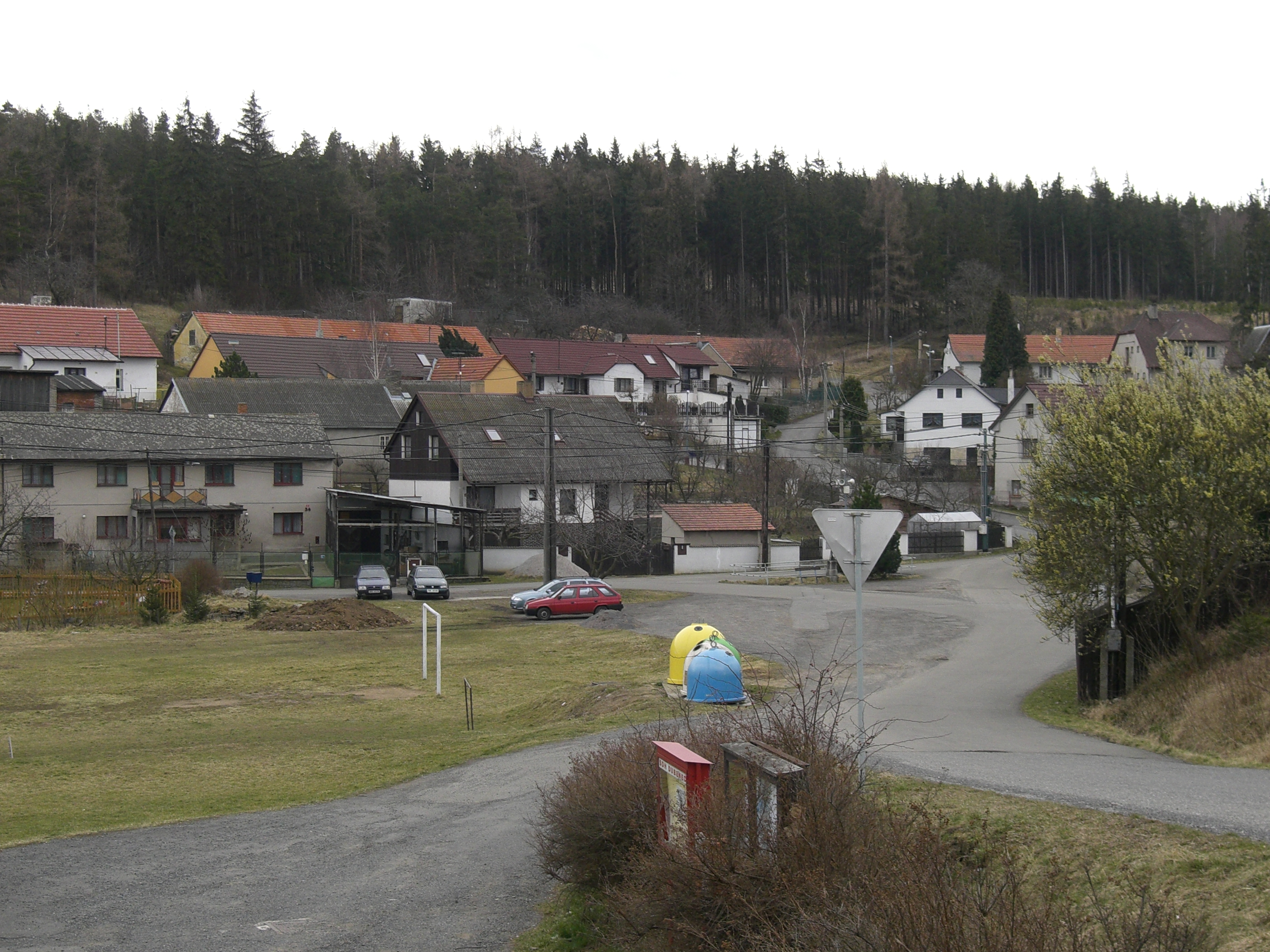 Dubenec village in Příbram district, Czech Republic